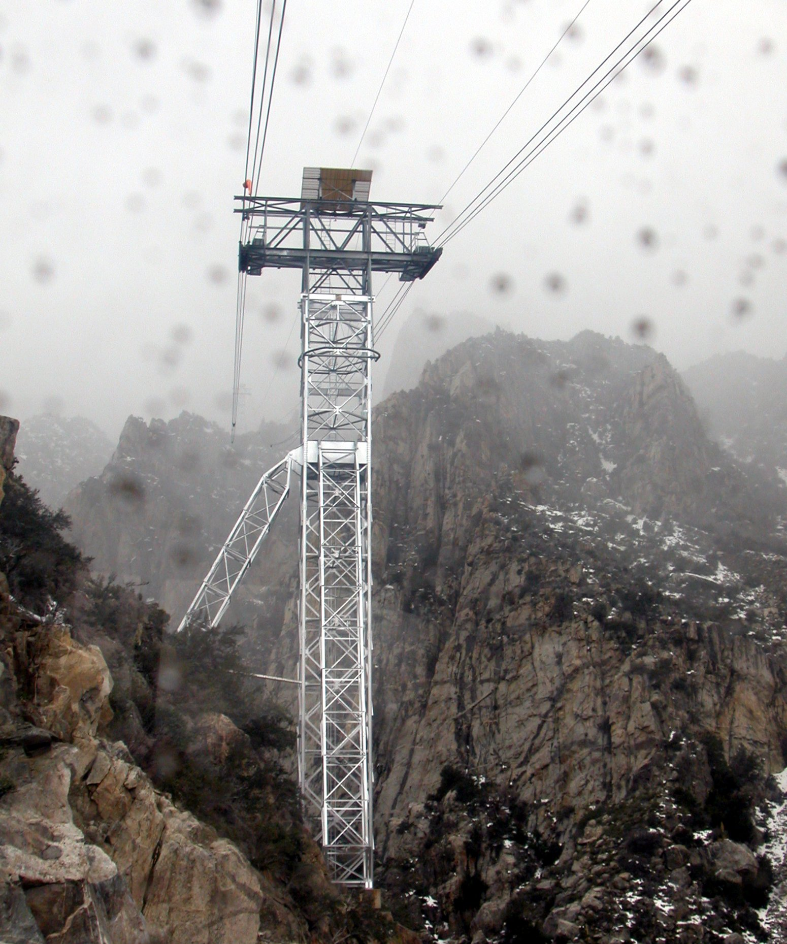 Description A support pillar for the Palm Springs Aerial Tramway. Source Original photo by Flickr memberDoc Searls. License